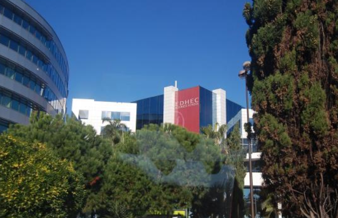 Edhec Nice